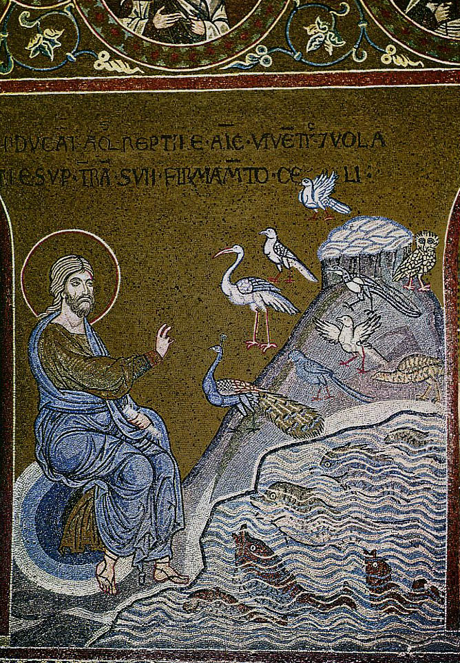 Creation of fishes and birds. Сотворение птиц и рыб. Byzantine mosaic i =n Monreale